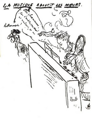 Drawing of Arthur Rimbaud by Paul Verlaine